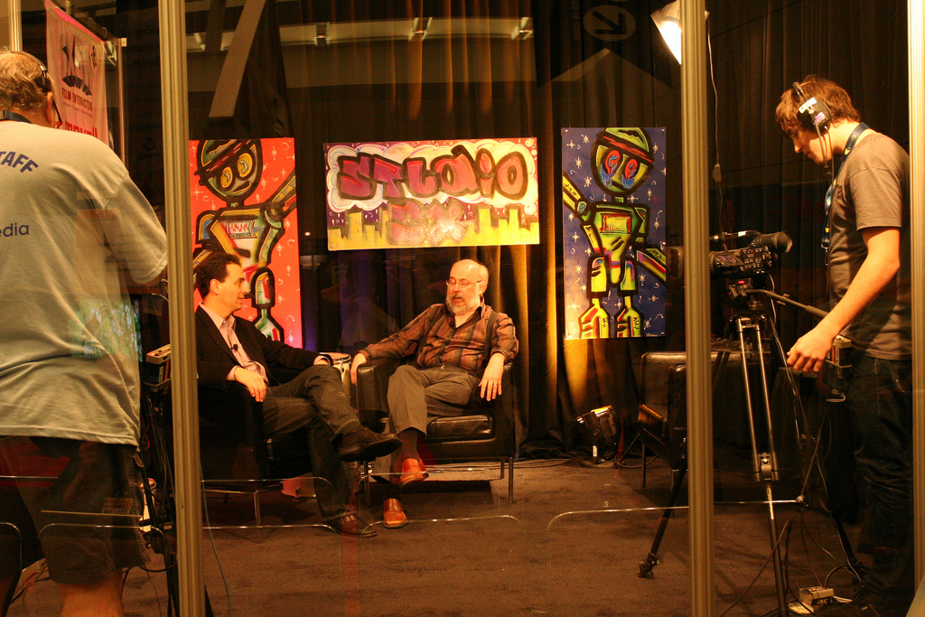 Trade show - Henry Jenkins in a cage